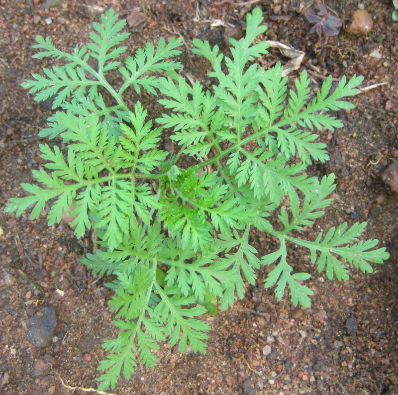 Artemisia annua or "Chinese wormwood", "Sweet wormwood" "Qing hao" is a medicinal plant with proven anti-malaria action. The principal active compound is called artemisinin and this is often processed into semisynthetic derivates like artesunate, dihydroartemisinin and artemether.